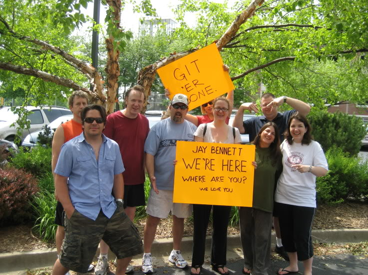 From the C-U Ning reunion, May 2009.